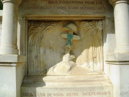 The monument aux morts at Etalon in the Somme